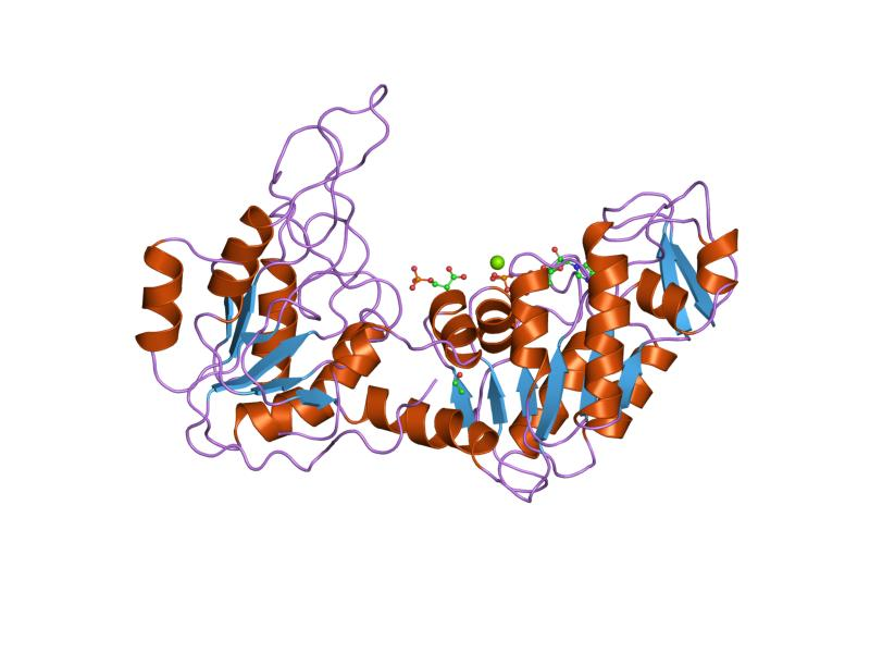 Cartoon representation of the molecular structure of protein registered with 3pgk code.